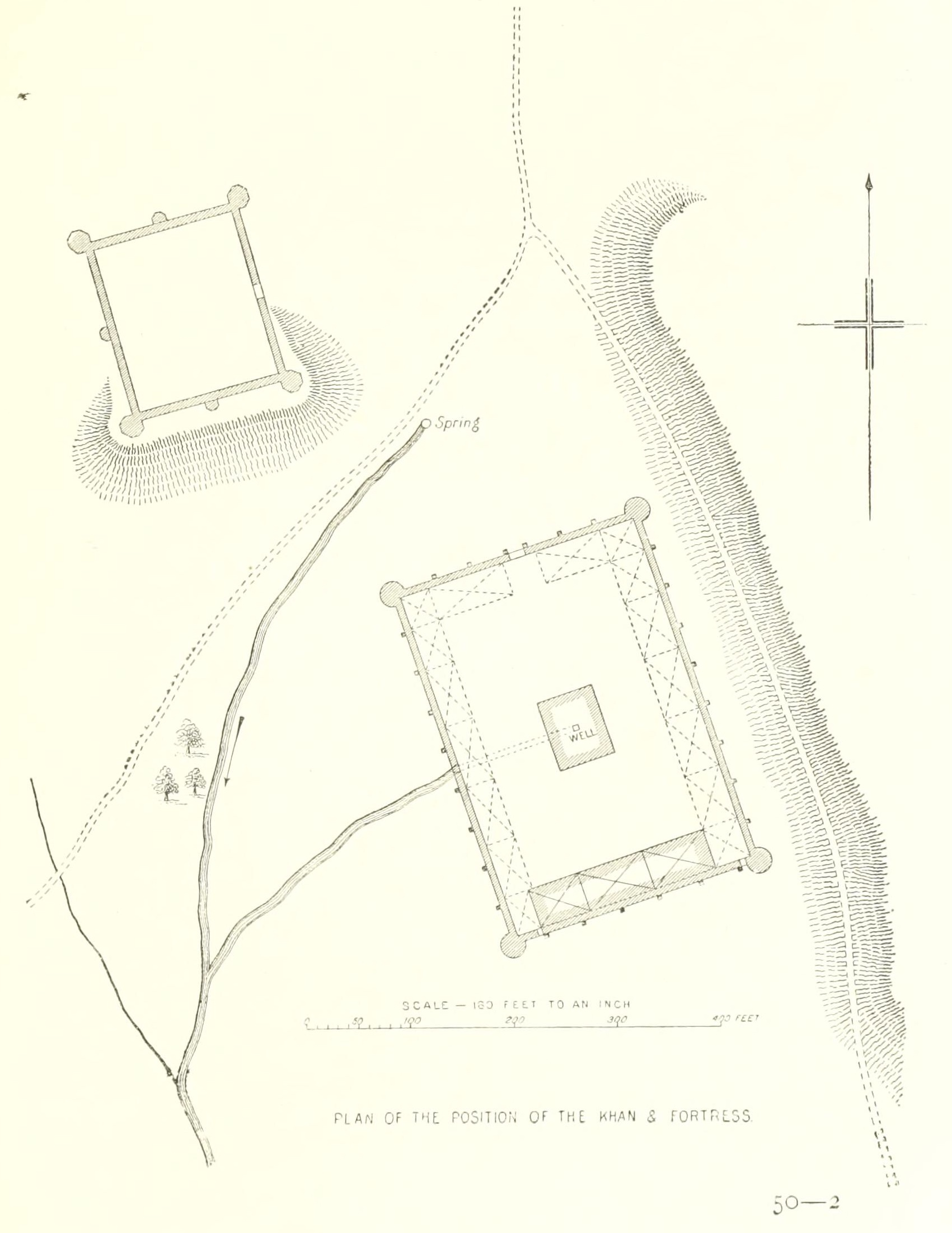 Khan el Tujjar from the 1871-77 Palestine Exploration Fund Survey of Palestine